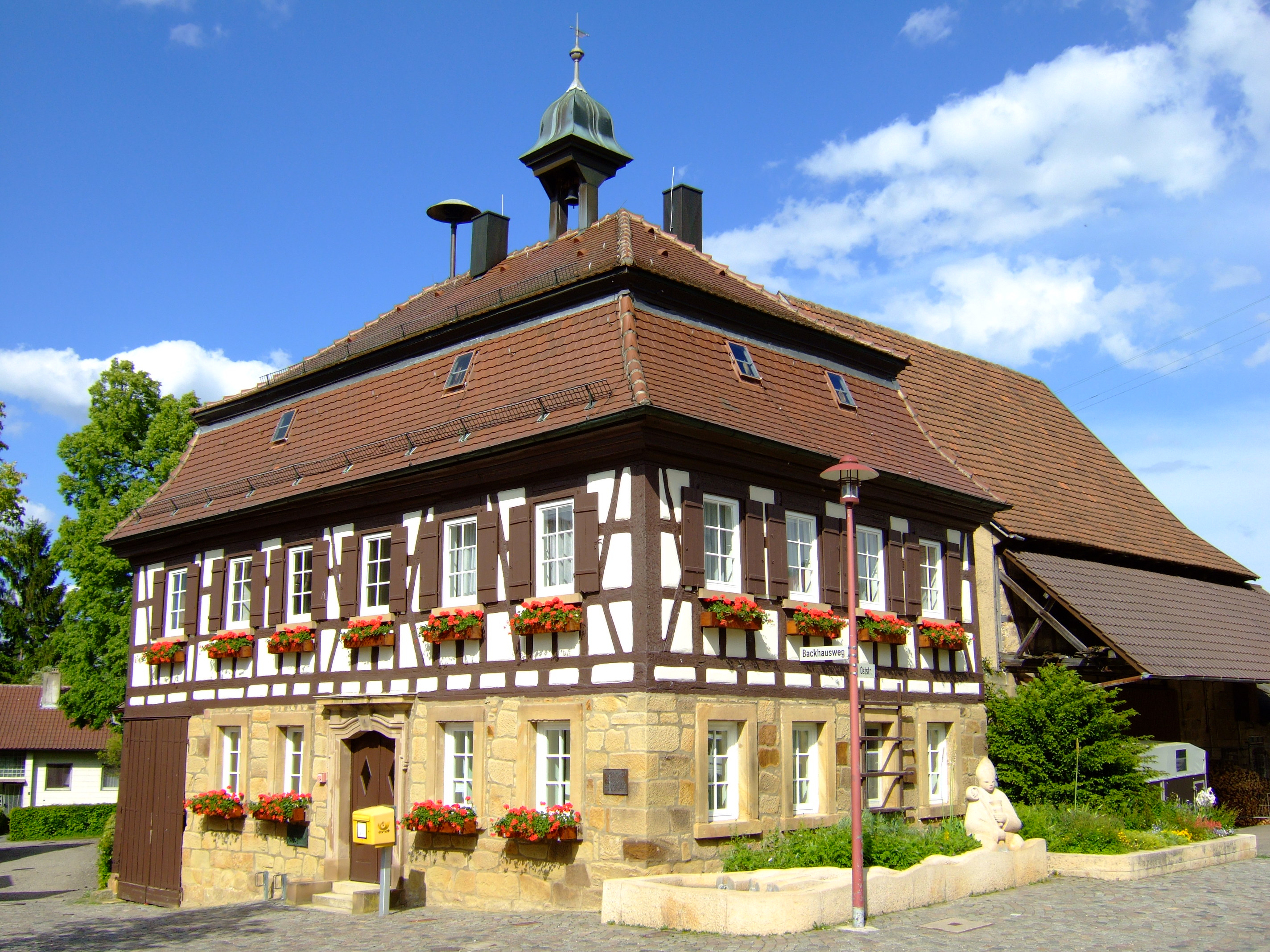 Old guildhall with well of "St. Remigius" of the Village Neckarsulm-Dahenfeld (built: 1759)